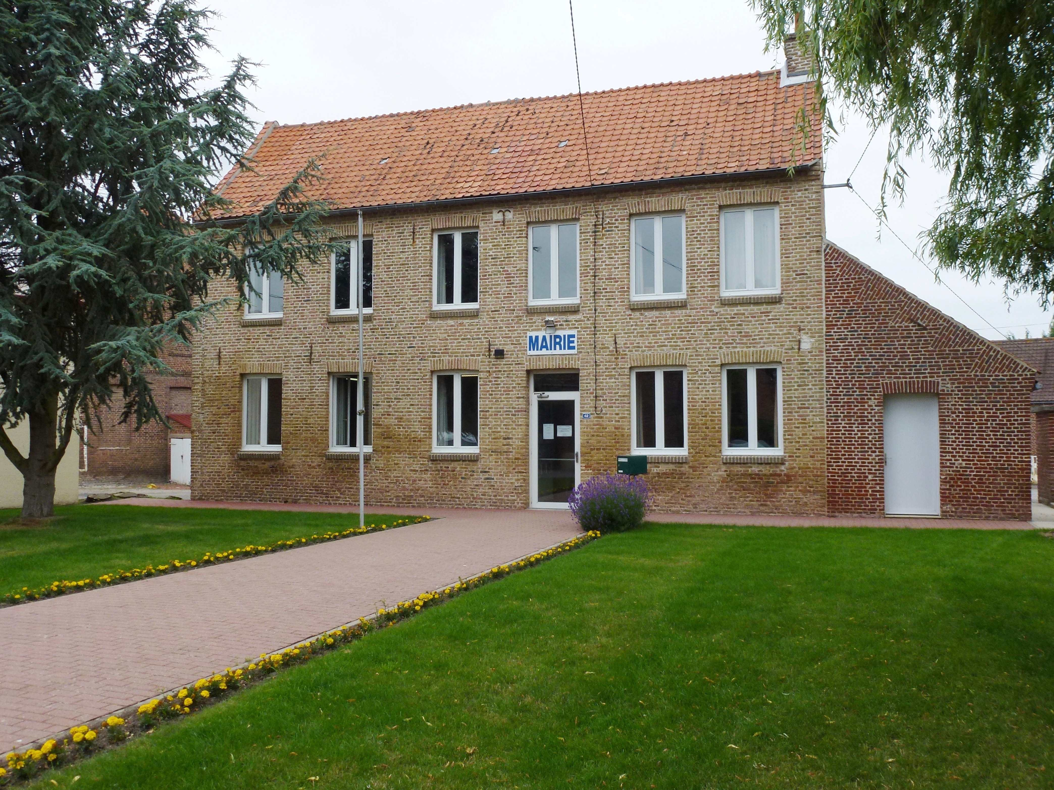 Witternesse (Pas-de-Calais) mairie